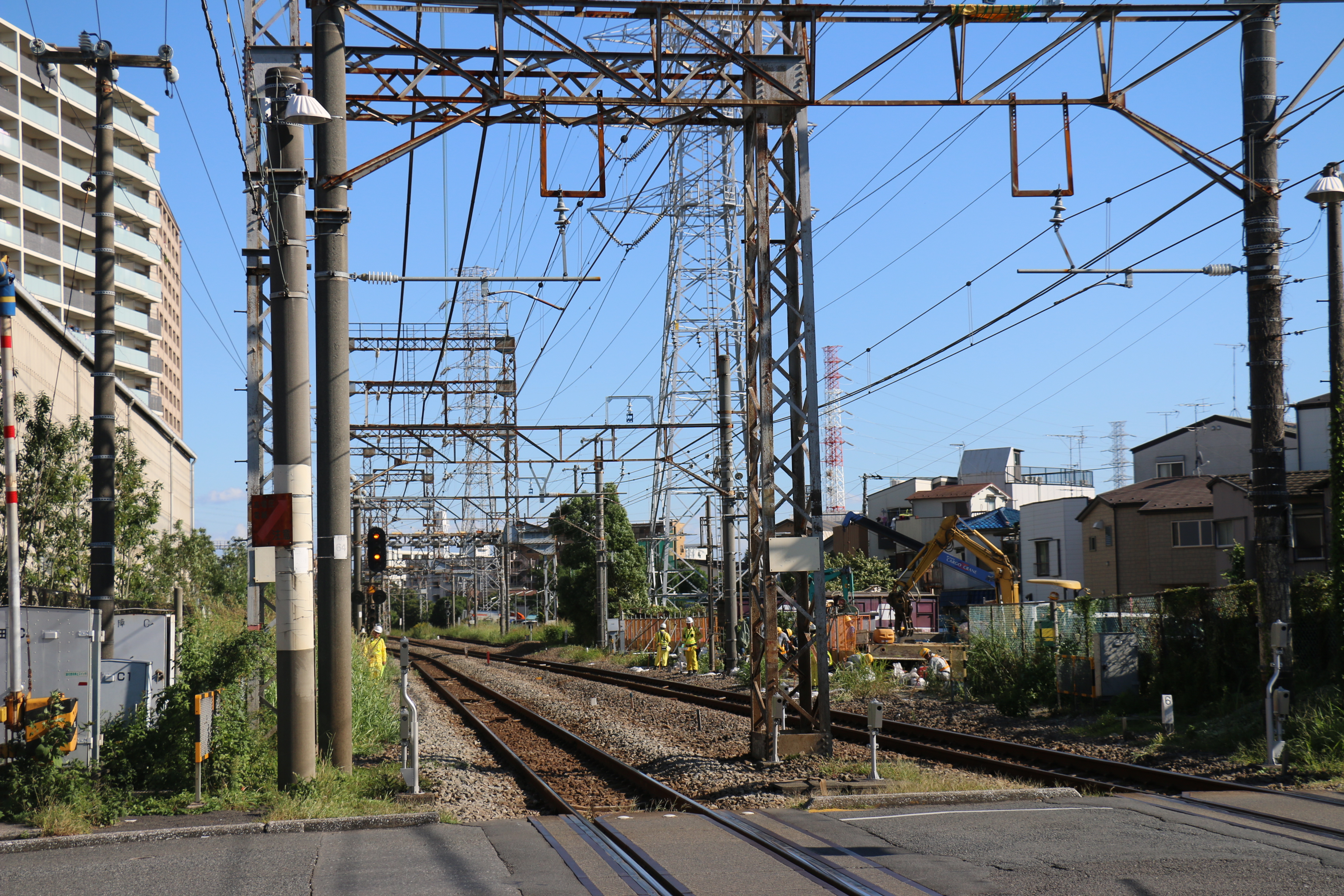 Construction of the new Odasakae Station on the Nambu Branch Line in Kanagawa Prefecture, Japan